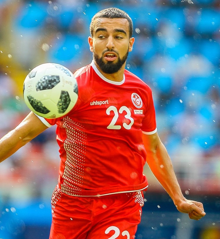 Dedryck Boyata, Naïm Sliti